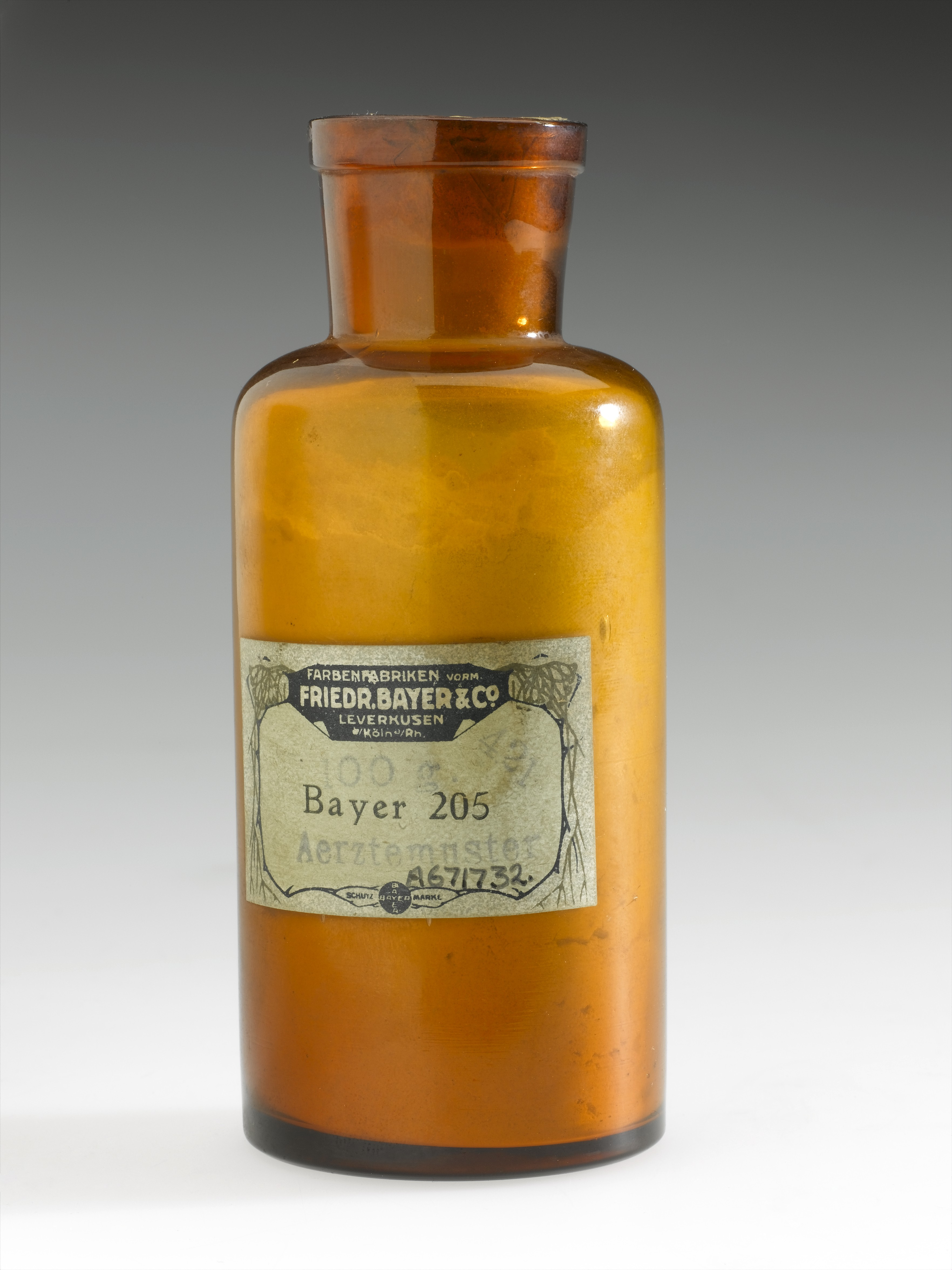 Bayer 205, now known as suramin, is effective against micro-organisms called trypanosomes, which are responsible for tropical diseases such as sleeping sickness. The drug was on the market from 1920. Developed in 1916 by a team at the German dye manufacturers Frederich Bayer and Co., Bayer 205’s chemical composition was kept a secret from other drug manufacturers. This bottle was given out free of charge for clinical tests of the first production batch. maker: Friedrich Bayer and Company Place made: Leverkusen, Köln, North Rhine-Westphalia, Germany Wellcome Images Keywords: Suramin; bottle; sleeping sickness